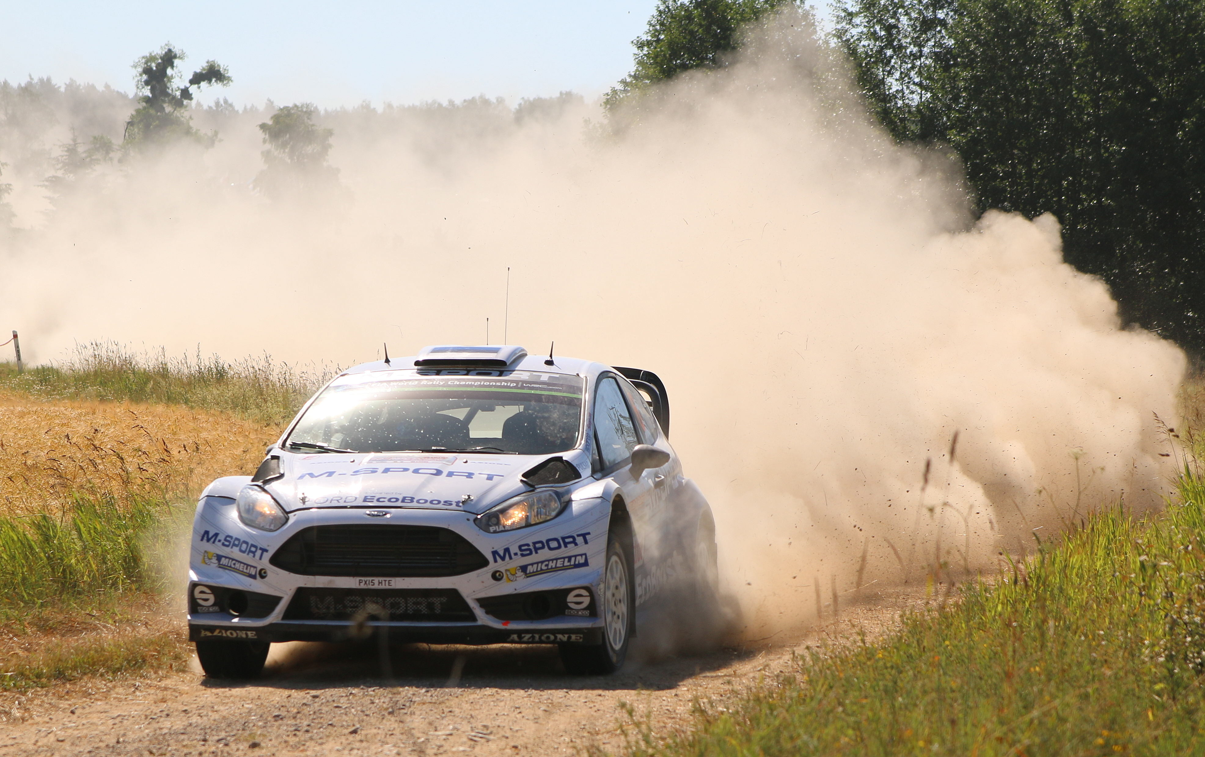 Ott Tänak, OS 10 Mazury, 72nd LOTOS Rally Poland